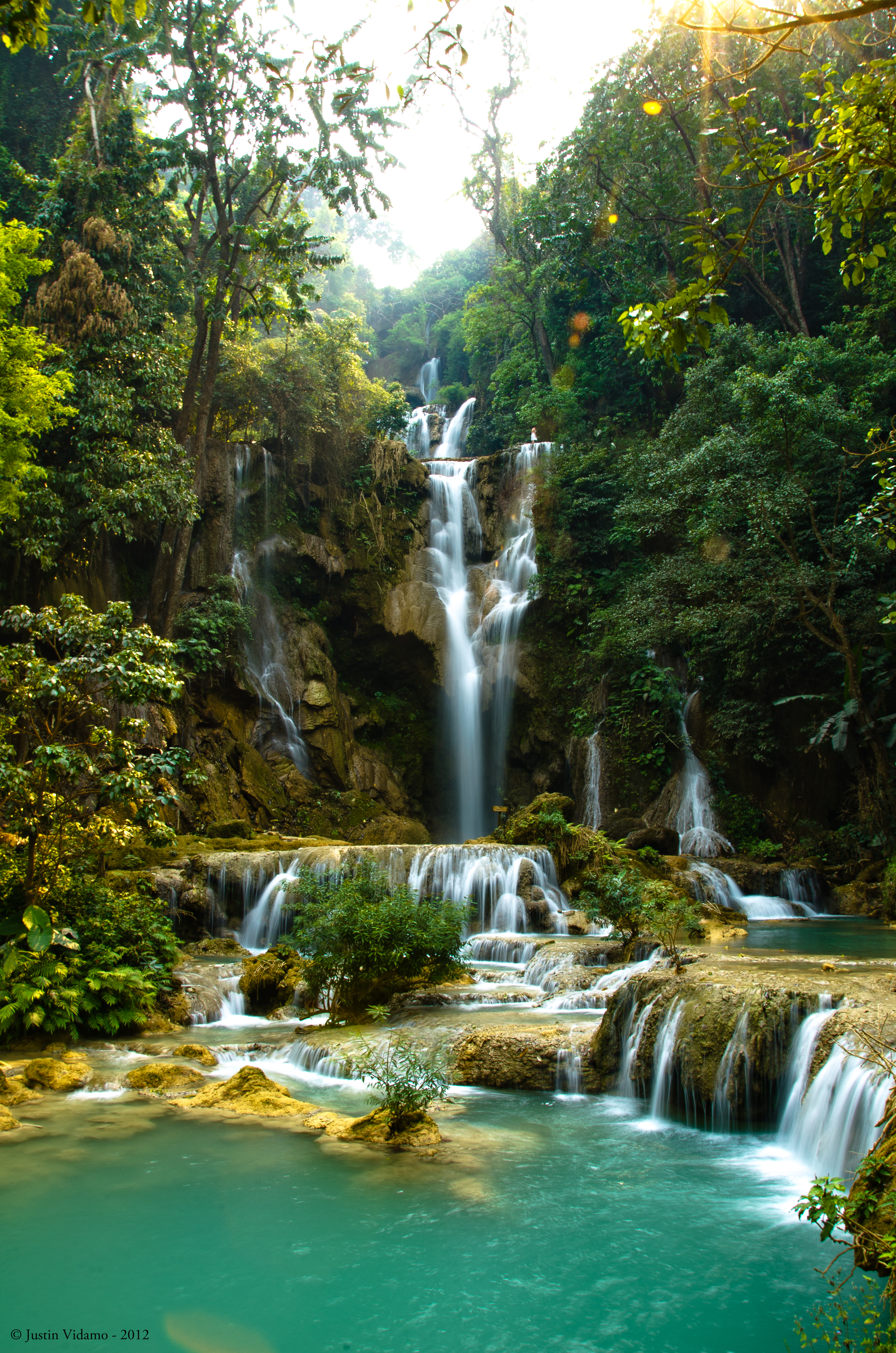 Kuang Si Falls is a three tier waterfall about 29 kilometres (18 mi) south of Luang Prabang in Laos. These waterfalls are a favourite side trip for tourists in Luang Prabang. The falls begin in shallow pools atop a steep hillside. These lead to the main fall with a 60 metres (200 ft)cascade.[1] The falls are accessed via a trail to a left of the falls. The water collects in numerous turquoise blue pools as it flows downstream. The many cascades that result are typical of travertine waterfalls. There's a guy at the top of the waterfalls for scale. Photo is big, better seen in full view ;)